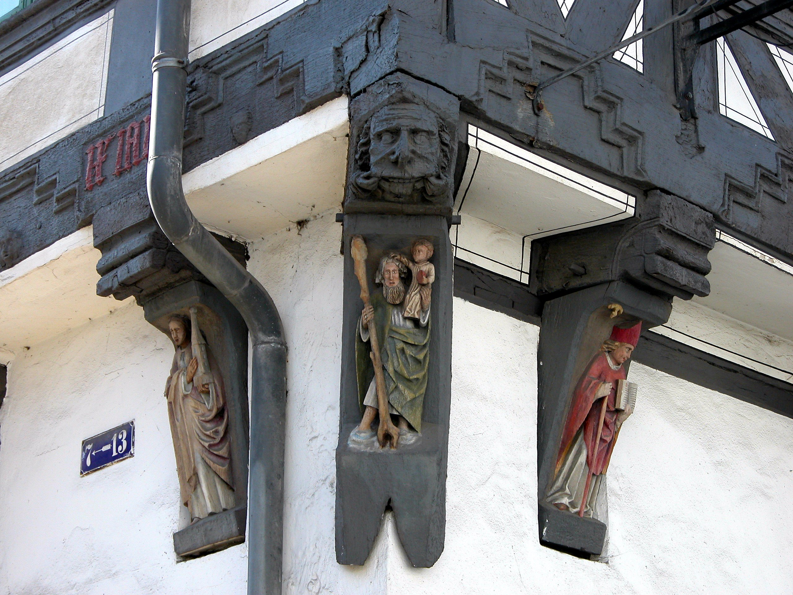 Braunschweig, Germany: St. Christopher, detail of the house “Ritter St. Georg” (Knight St. George).